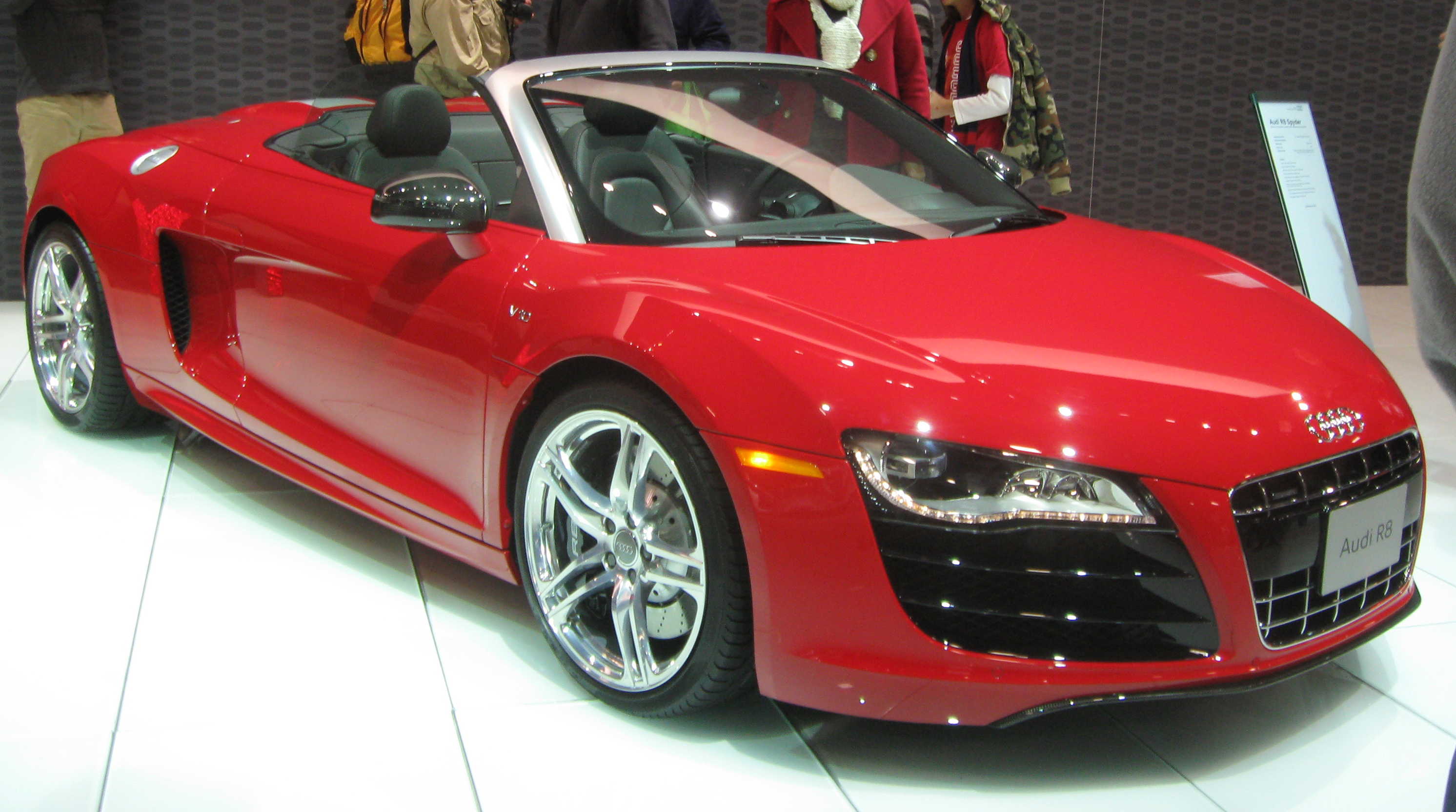 2010 Audi R8 photographed at the 2010 Washington Auto Show.